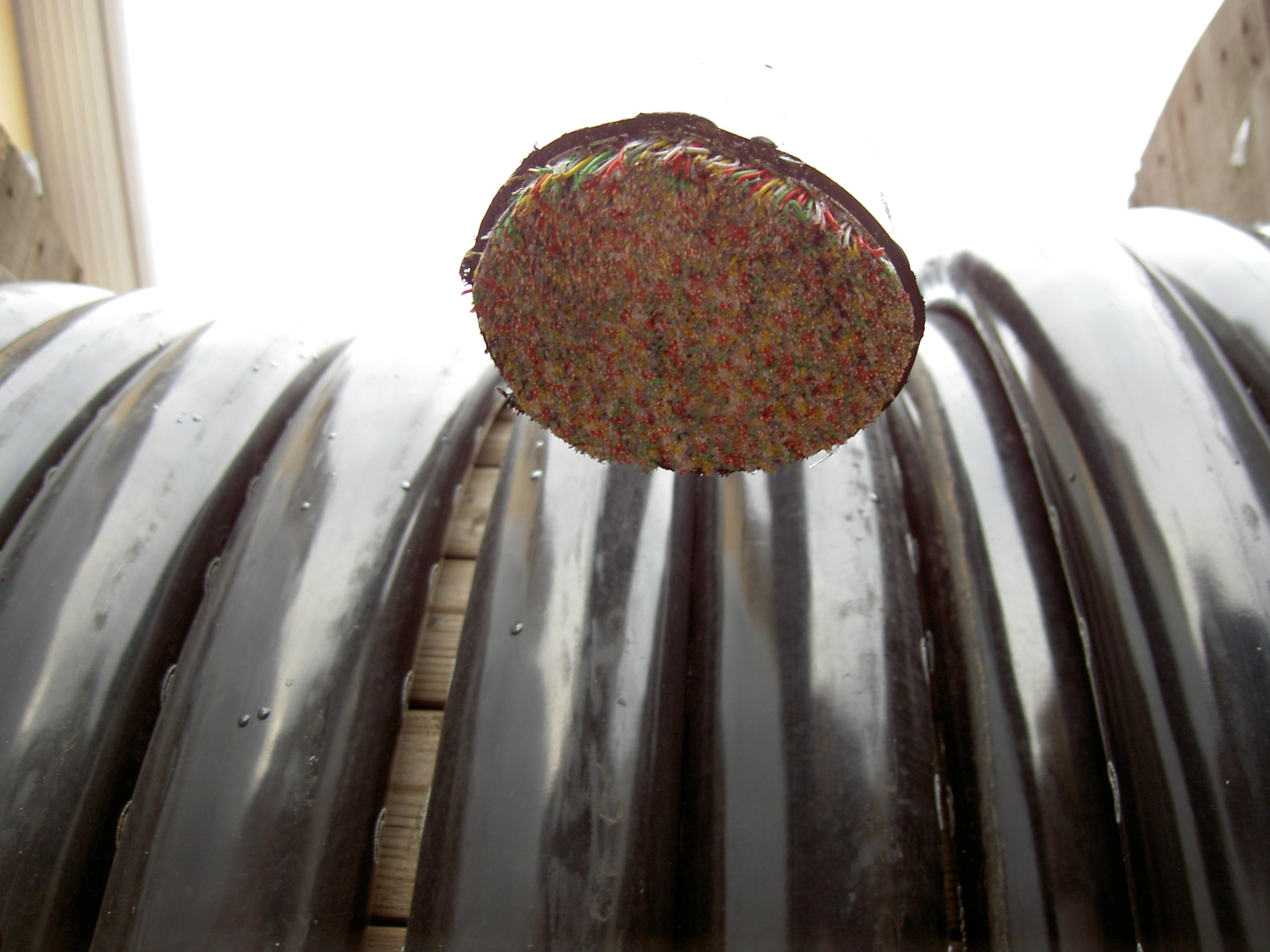 Subscriber line on a cable drum, Griesheim, Germany